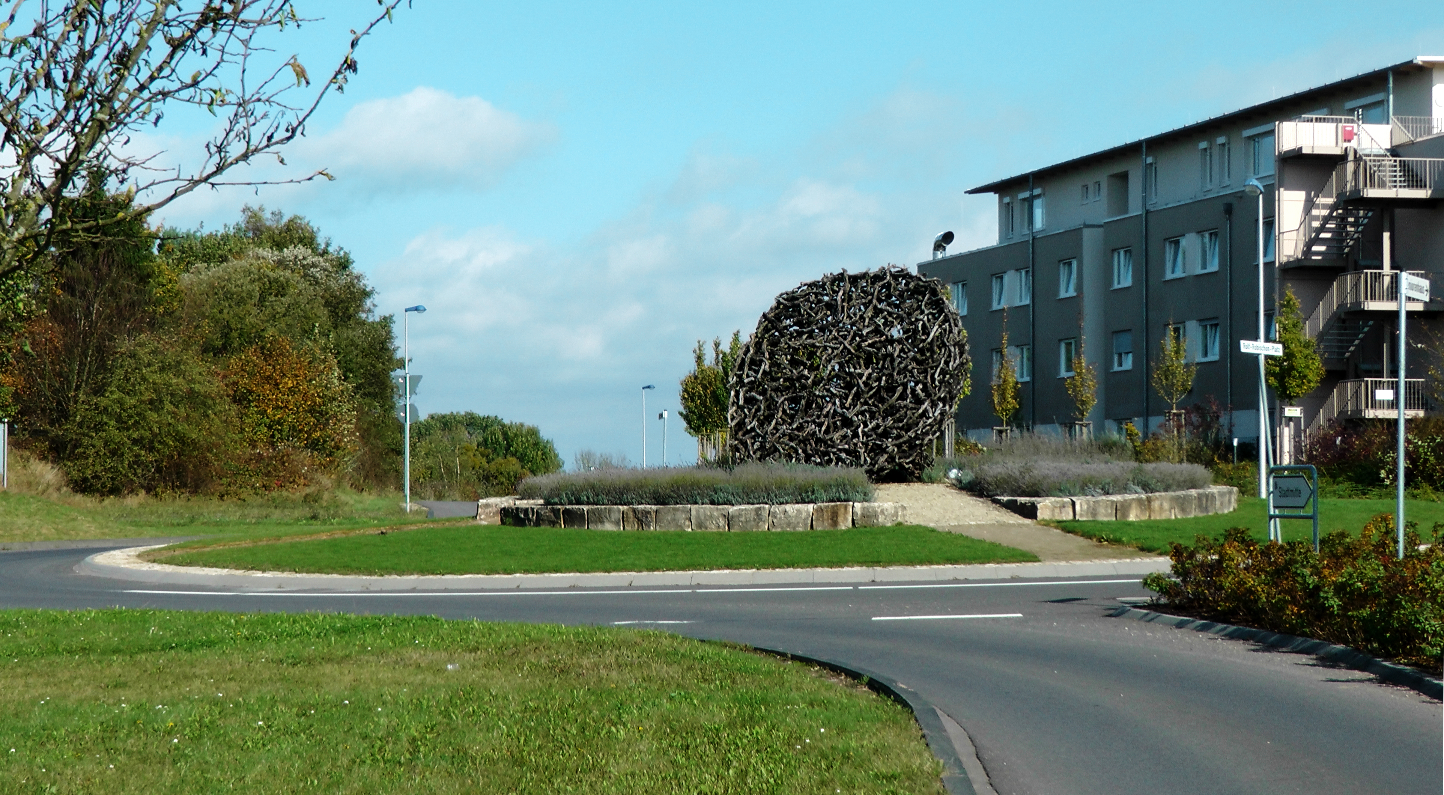 Konz - Rolf Robischon Platz - fist president of "open air museum Roscheider Hof"